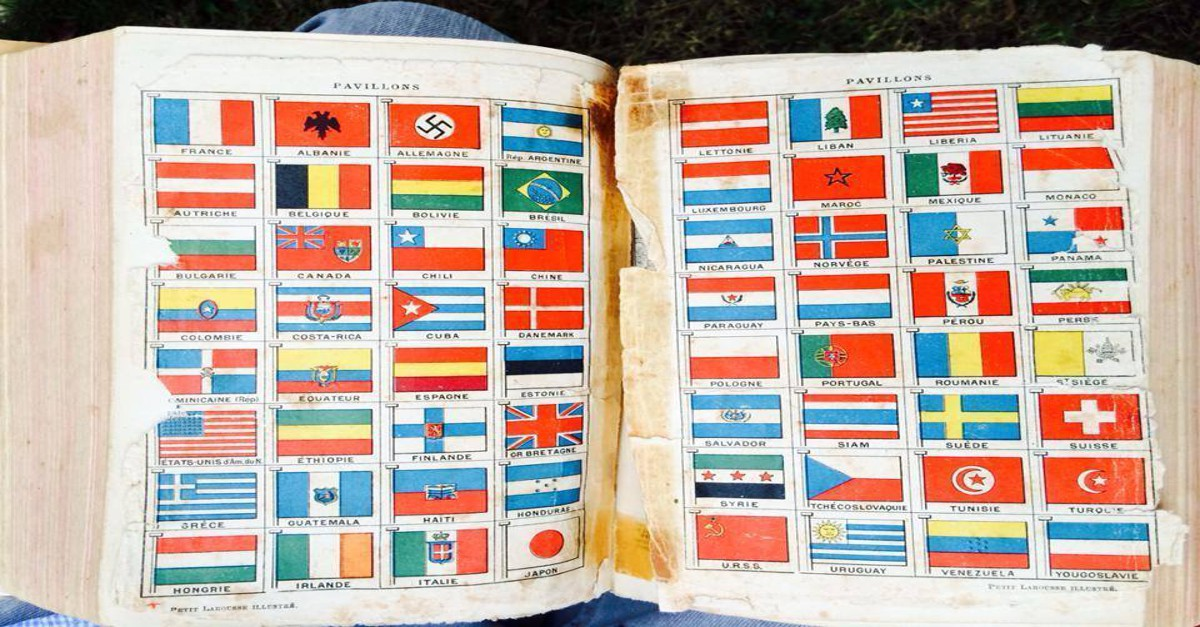 Larousse French dictionary from 1939 flag page